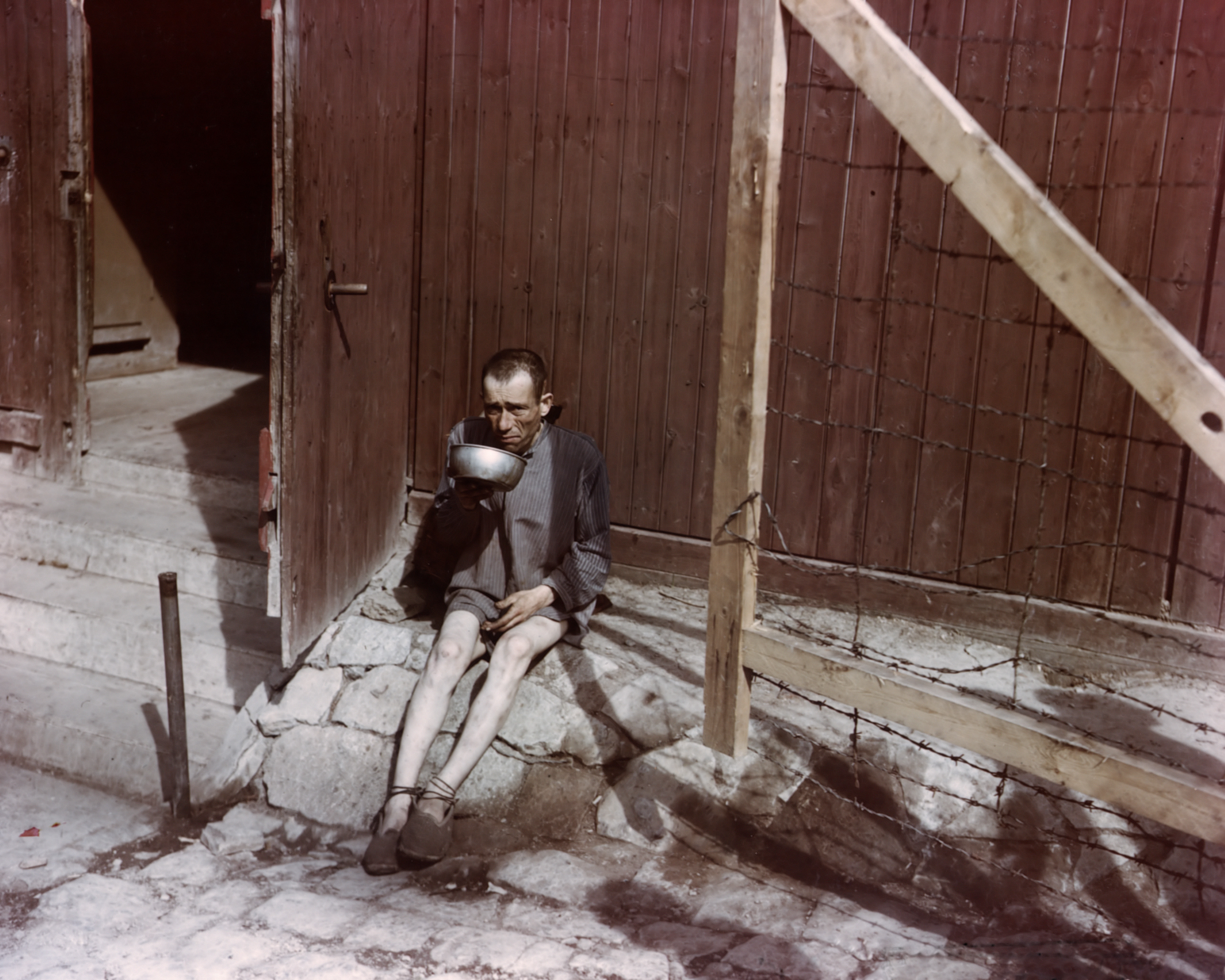 An emaciated survivor drinking from a metal bowl in front of barracks at Buchenwald concentration camp.